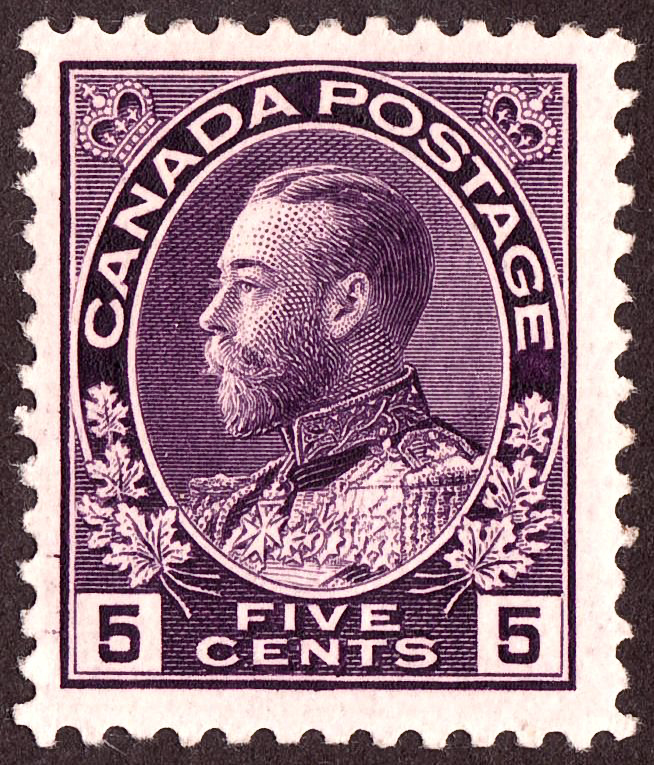 Canada postage stamp, KGV, 1922 issue, 5c, violet variety